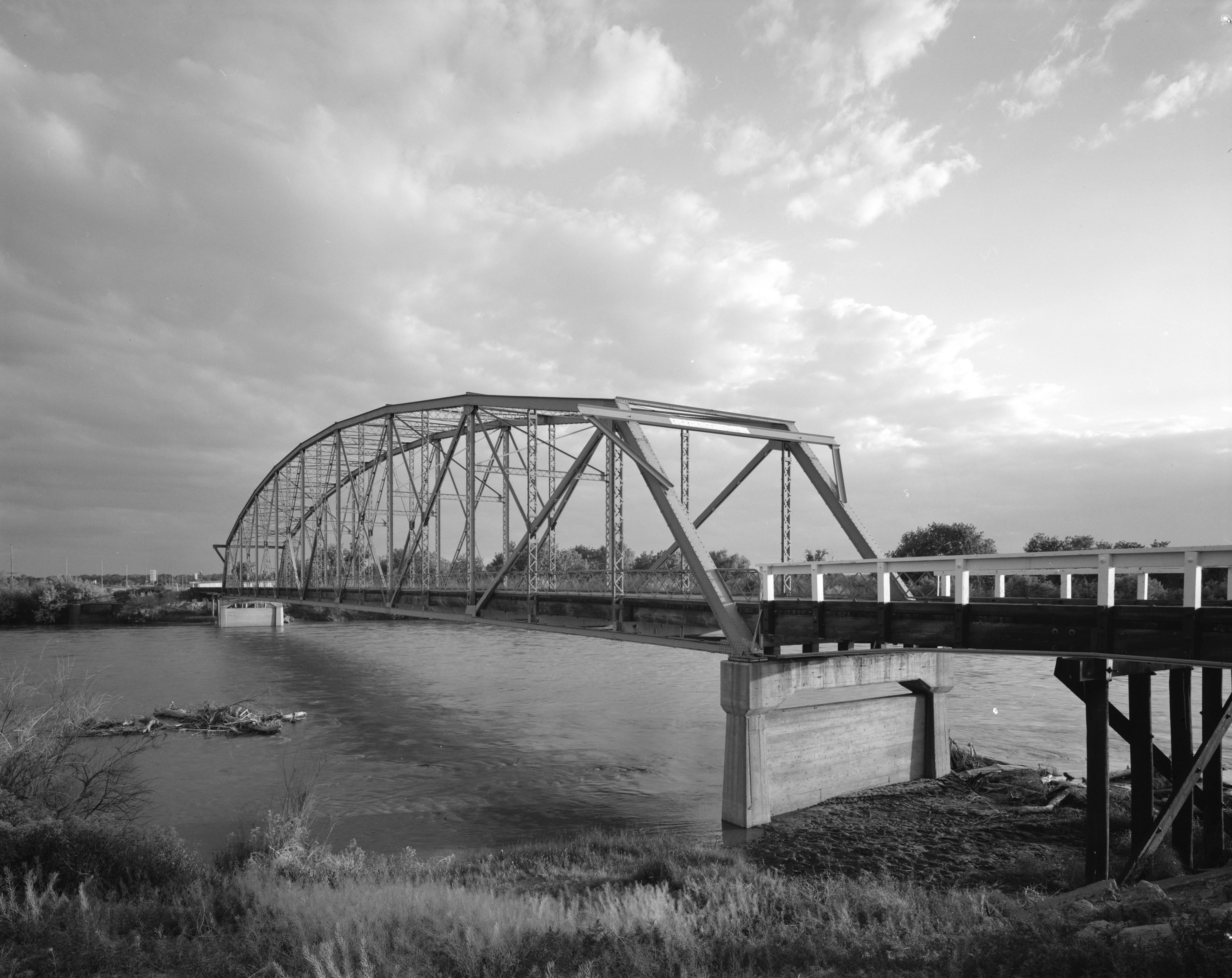 Manzanola Bridge, State Highway 207, spanning Arkansas River, Manzanola vicinity (Crowley County, Colorado)